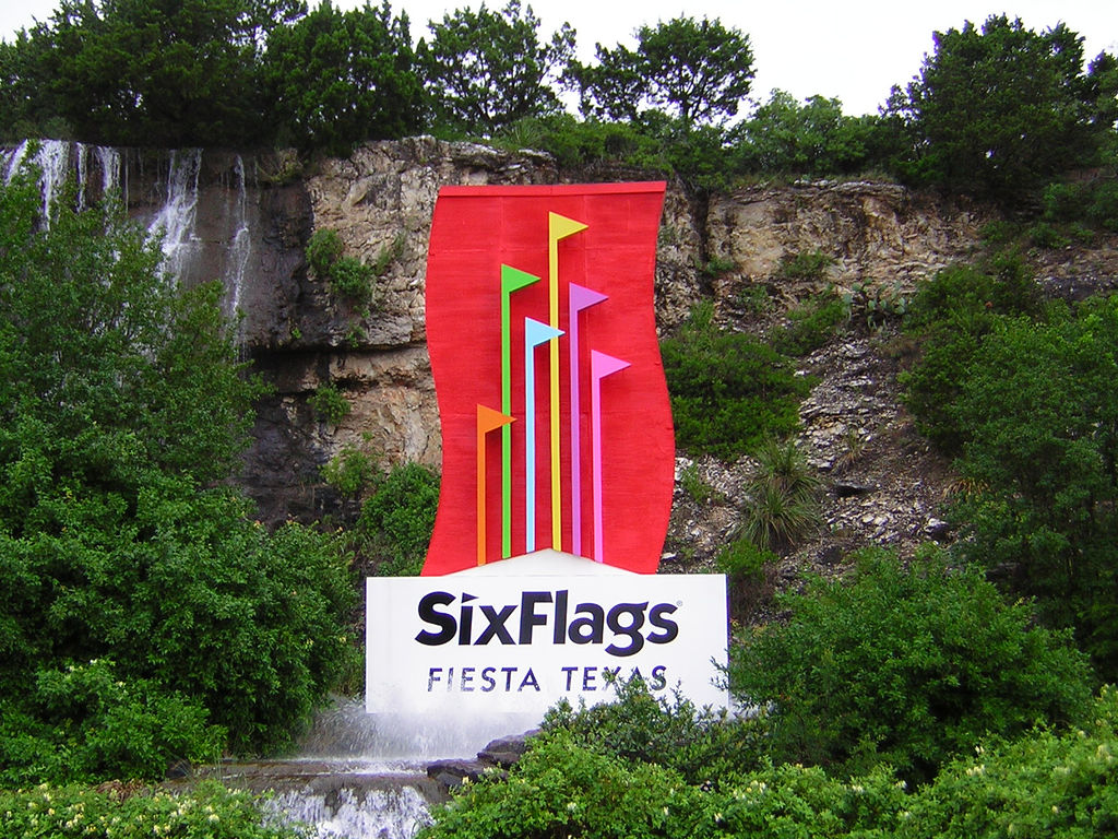 Entrance to Six Flags Fiesta Texas.